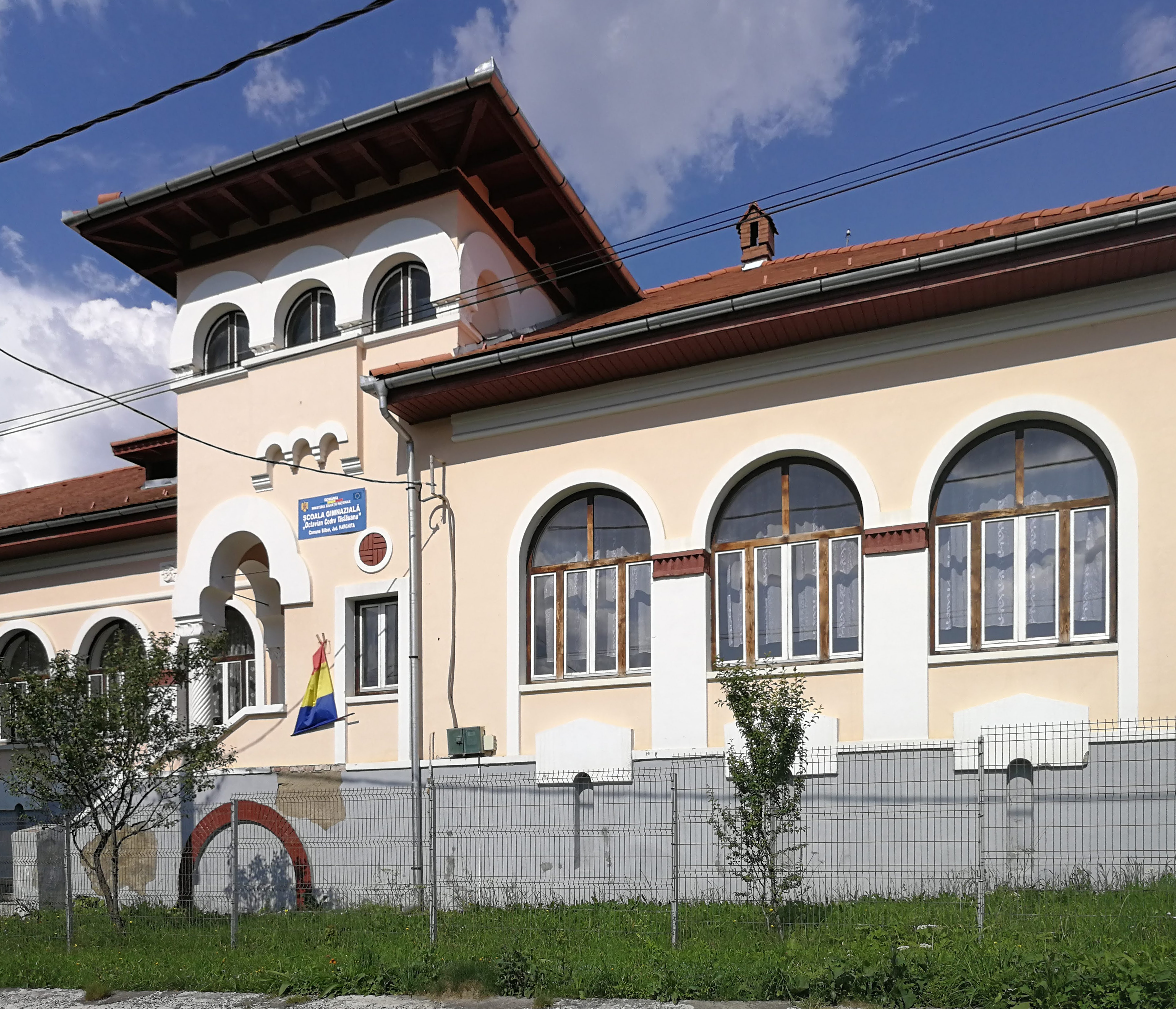 "Octavian Codru Tăslăuanu" lower secondary school in Bilbor, Harghita County, Romania